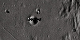 Seeliger lunar crater as seen from Earth with satellite craters labeled